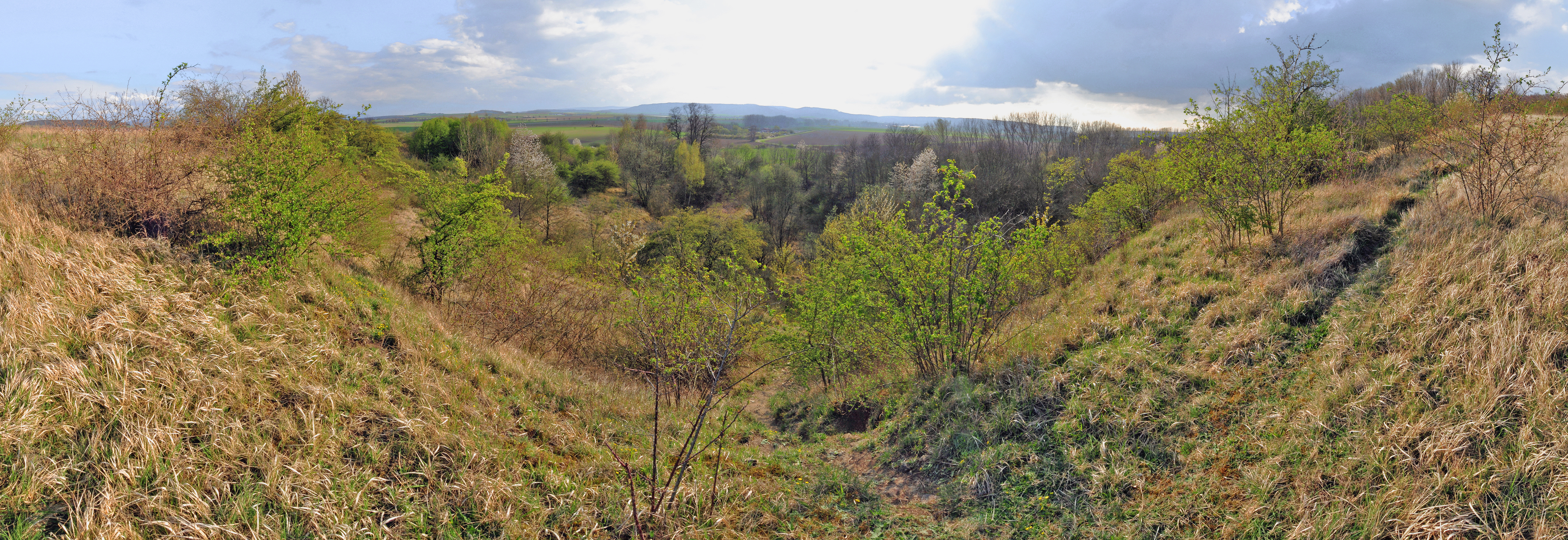 View from the north to the valley of the river Haller near the village of Hallerburg in Lower Saxony, Germany.